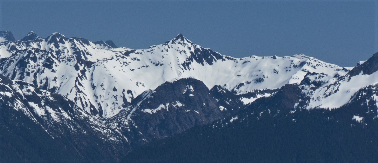 Mount Chardonnay beyond Mamie Peak